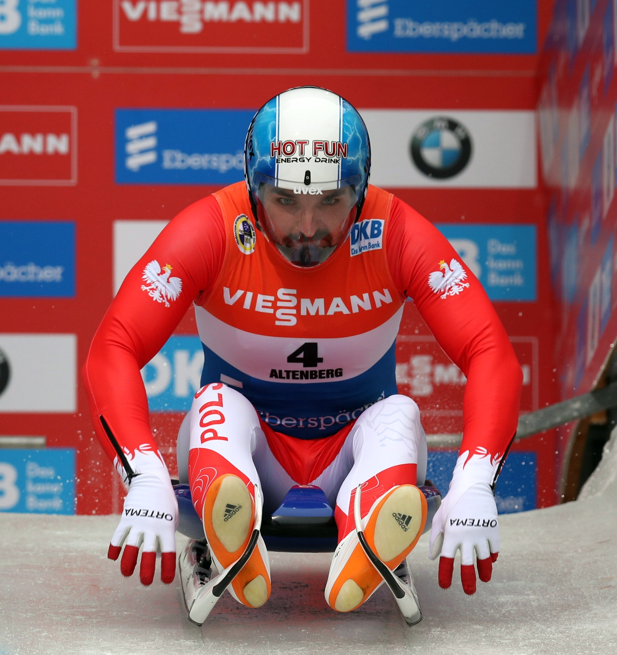 Luge World Cup Men 2017/18 in Altenberg: Maciej Kurowski